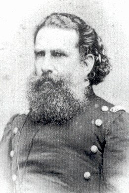 Argentine militar, Gral Julio Fabián de Vedia, the first Governor of Chaco Province.